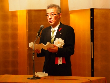 Yoshio Maki, Senior Vice-Minister of Health, Labour and Welfare, addressed at the Tokyo Kaikan in Chiyoda Ward, Tōkyō Metropolis on October 5, 2011.(For terms of use, see 利用規約｜厚生労働省.)